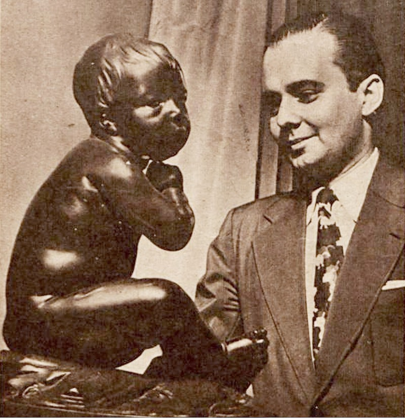 Brazilian playboy Jorge Guinle, in 1945.